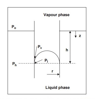 Fig. 1. A system containing a pure homogeneous vapour and liquid in equilibrium. In a “thought experiment” a non-wetting tube is inserted into the liquid, causing the liquid in the tube to move downwards. The vapour pressure above the curved interface is then higher than that for the planar interface. This picture provides a simple conceptual basis for the Kelvin equation.